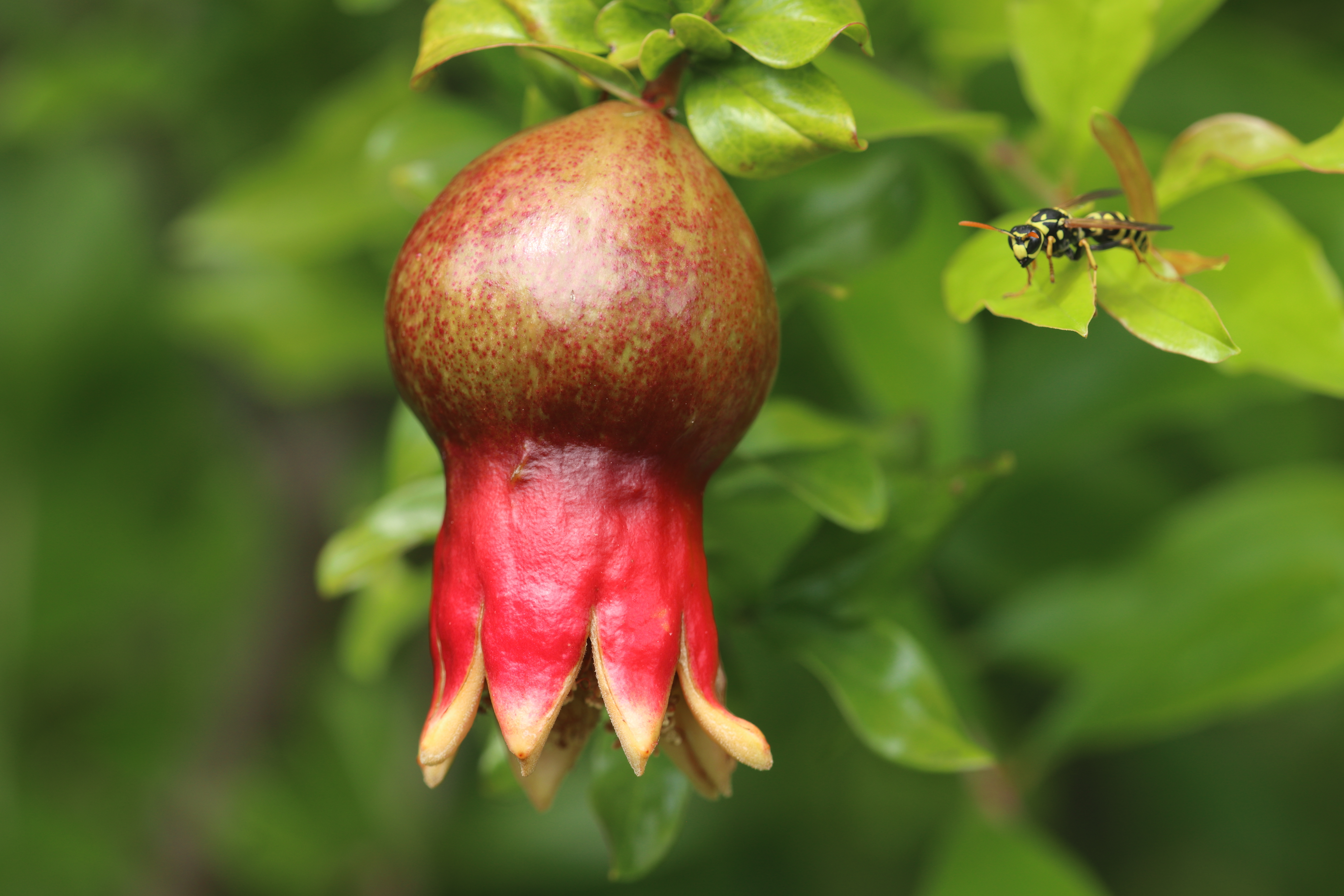 Picture of a pomegranate fruit setting in a flower.